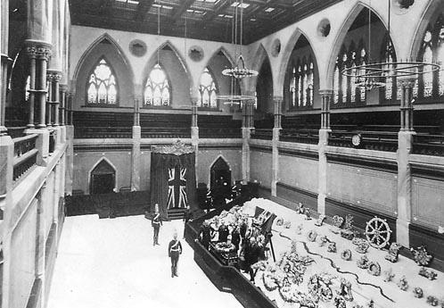 Sir John A. MacDonald lying in state in the Senate Chamber, 1891. Ottawa, Ontario, Canada